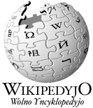 Logo of the Silesian Wikipedia